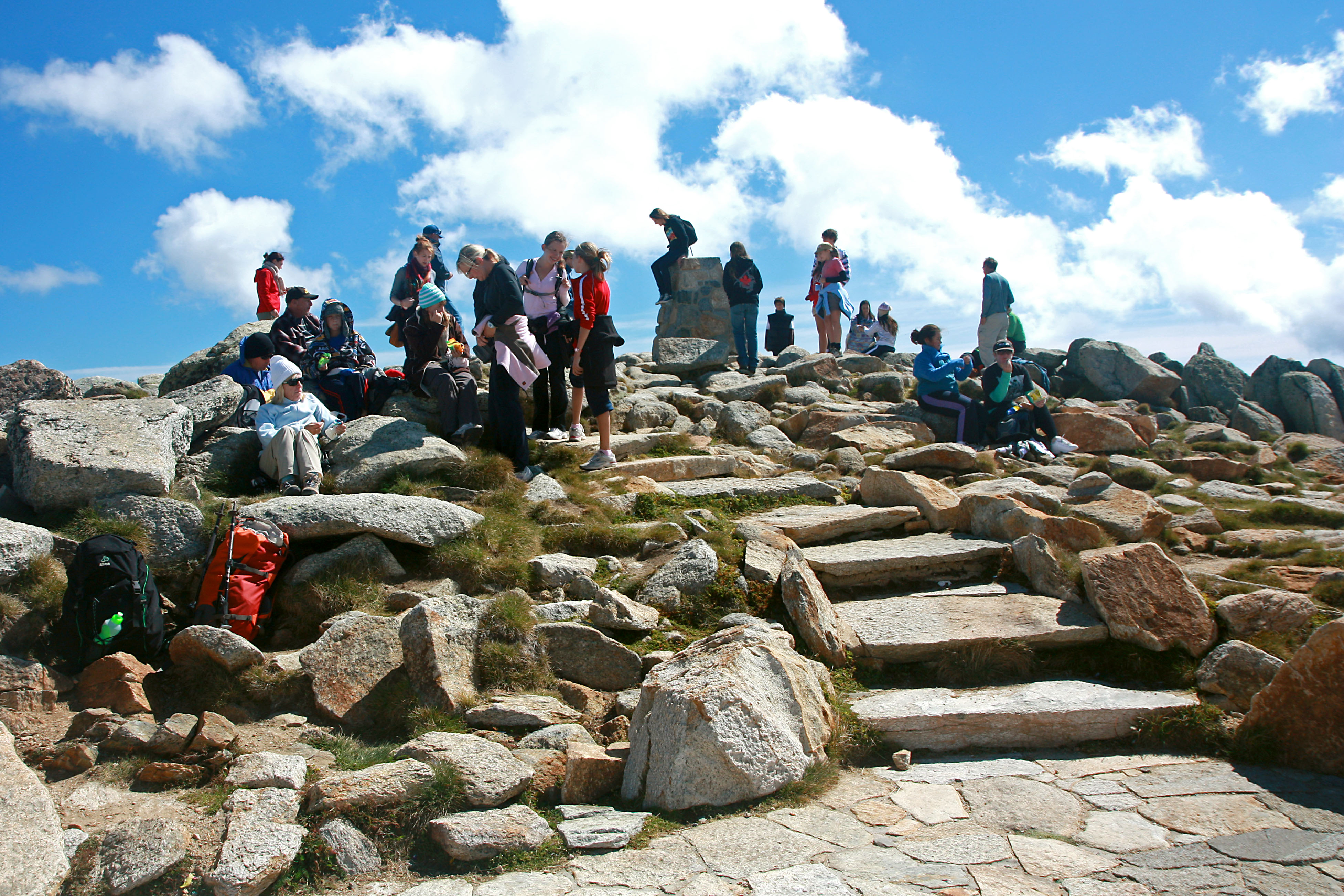 highest point in Australia